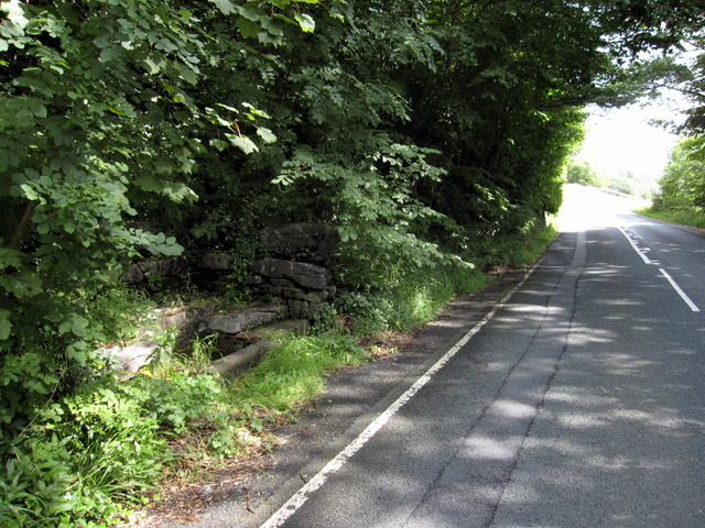 The Ebbing and Flowing Well at Buck Haw Brow This famous well popular with the Victorians is well hidden by the summer tree growth. The B6480 to Settle is a very busy road so walking to the well can be hazardous.